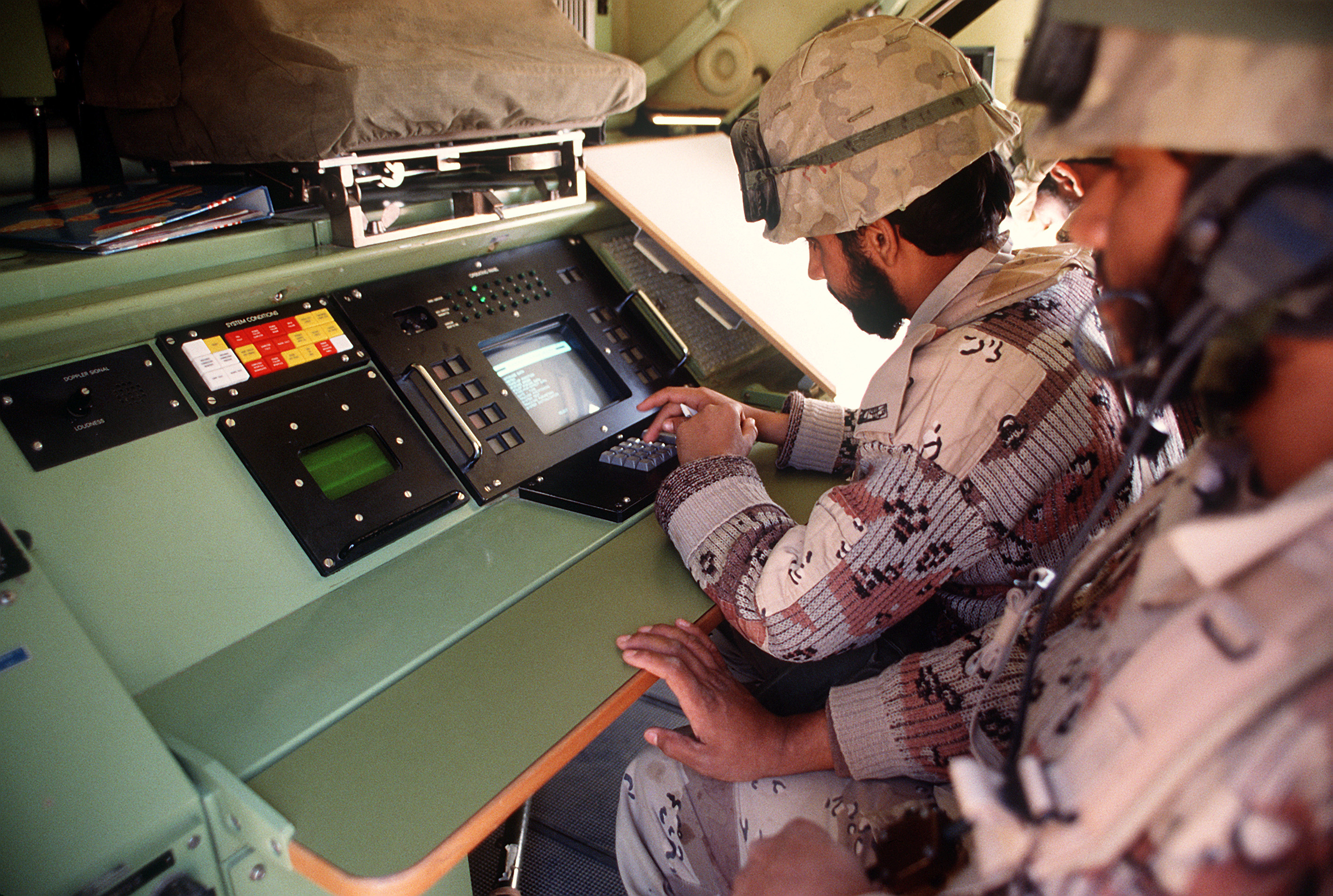 Saudi Arabian soldiers man the control panel of a Brazilian-made Avibras ASTROS II SS-30 multiple rocket system while taking part in a demonstration of Saudi Arabian equipment during Operation Desert Shield.